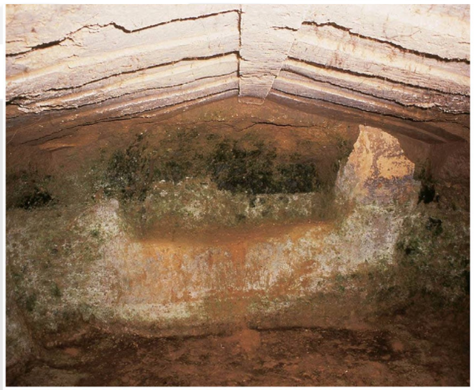 Tomba 14, necropoli Poggio Sommavilla, soffitto decorato a doppio spiovente con columen centrale, travi perpendicolari, Mutuli e Cantherii scolpiti a formare il tetto displuviato chiusura con tegole poste a incastro, fondo Stallone, Archivio SBALazio.